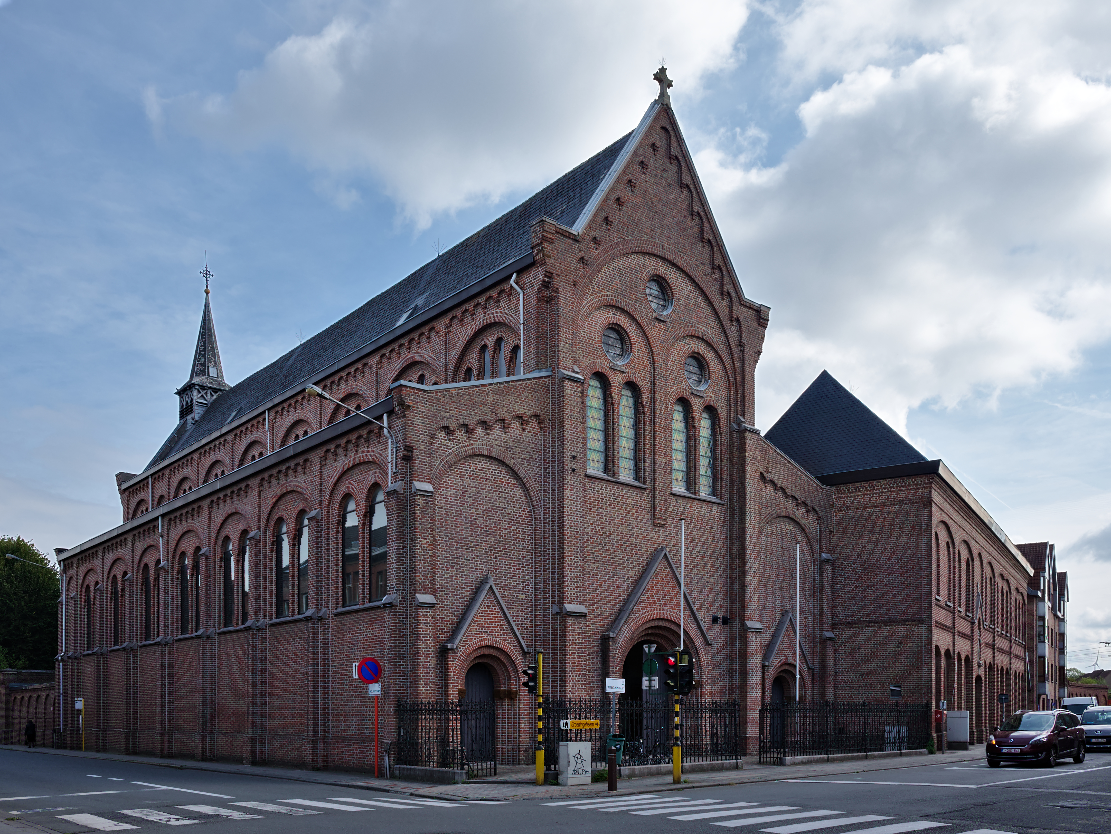 Sint-Antoniuskerk in Kortrijk This photo of immovable heritage has been taken in the Flemish Region